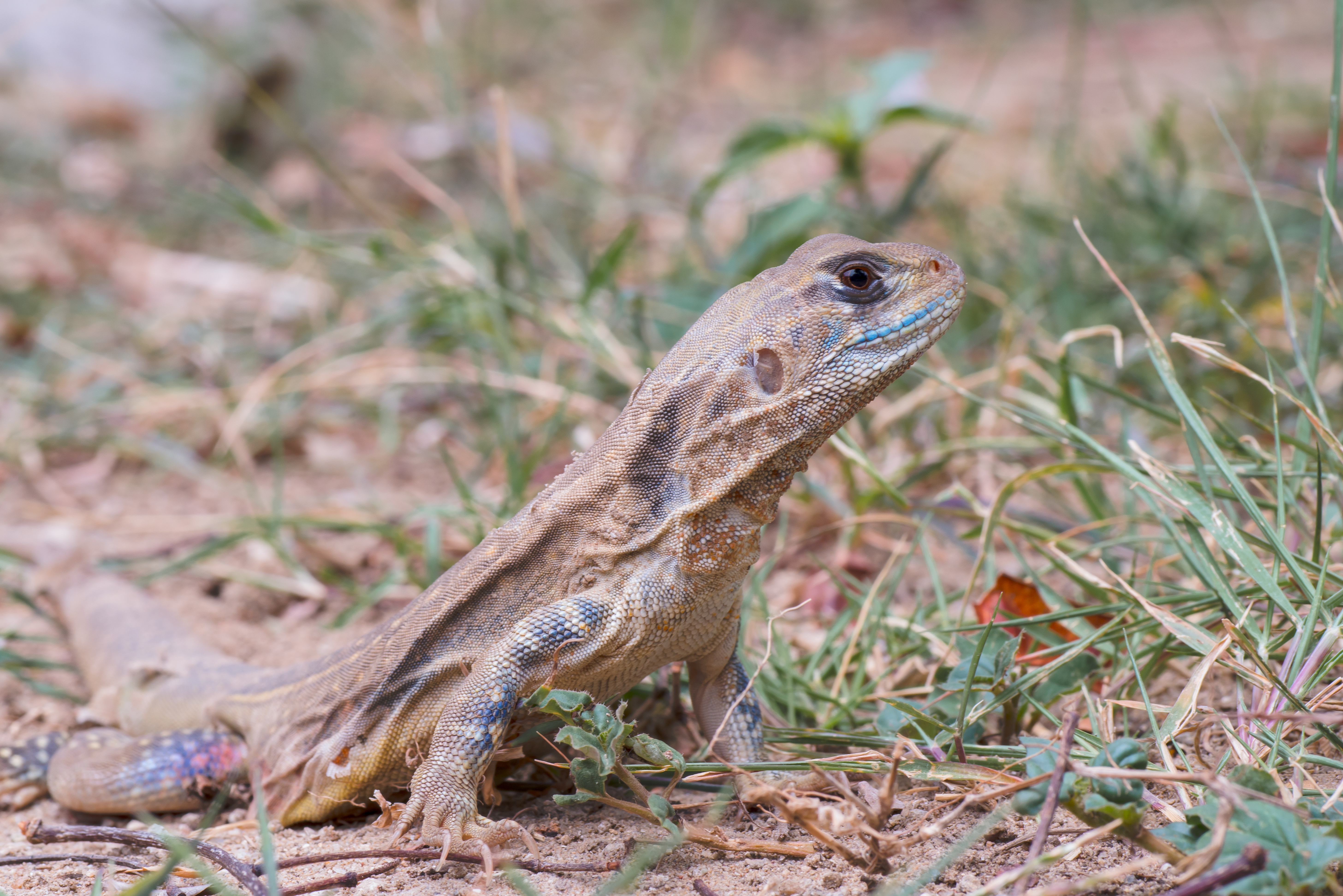 Leiolepis belliana, common butterfly lizard - Khao Sam Roi Yot National Park